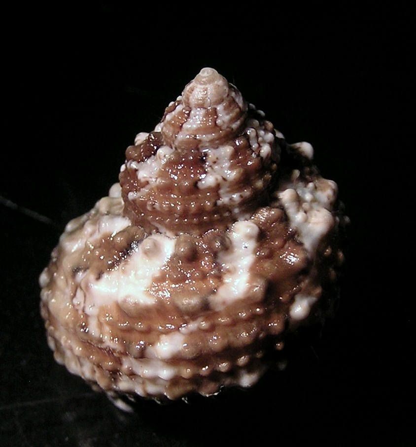 Turbo (Senectus) castanea Gmelin, 1791 , a turban snail from the family Turbinidae; Florida